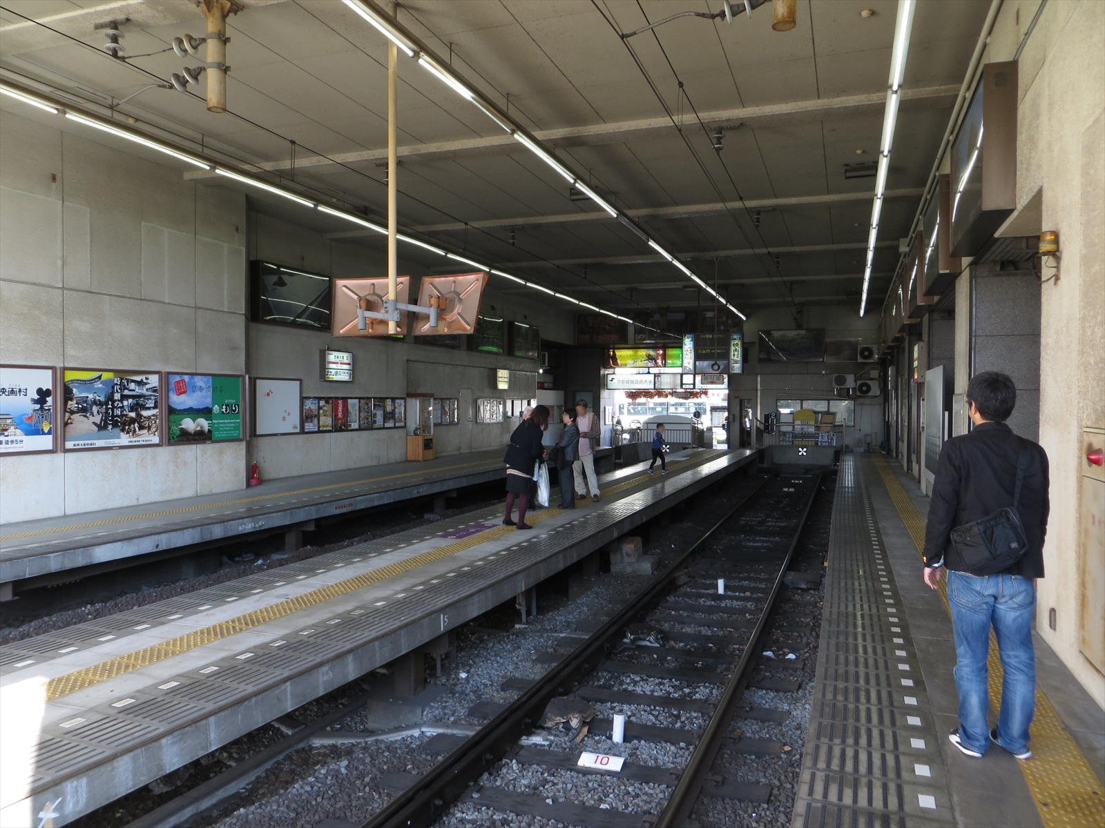 Platform of Shijō-Ōmiya Station, Randen Arashiyama Main Line.